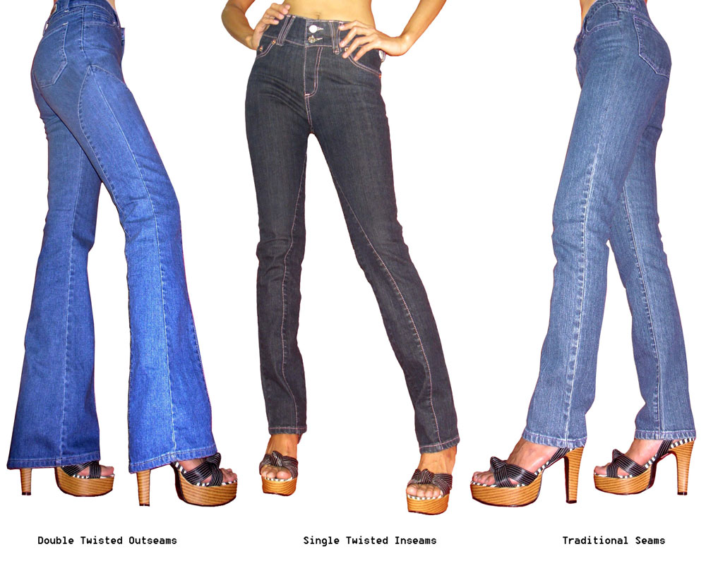 Ellecid Double Twisted Outseams Jeans, Single Twisted Inseams Jeans, Traditional Jeans